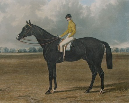 Launcelot, Winner of The Great St Leger Stakes at Doncaster 1840. Painting by John Frederick Herring (1795-1865). Artist dead for 147 years.